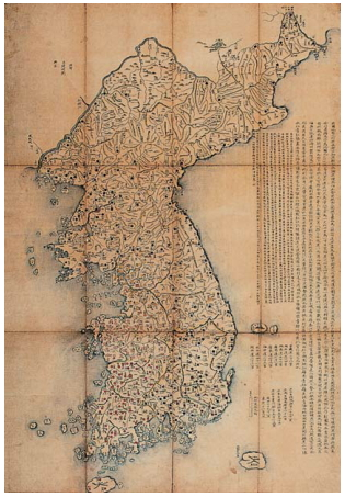 Dongguk Daejido, or “Complete Map of the Eastern Country” (東國大地圖, Treasure 1538), is a comprehensive map of the Korean territory, produced by Jeong Sanggi (鄭尙驥, 1678-1752) in the mid-eighteenth century.